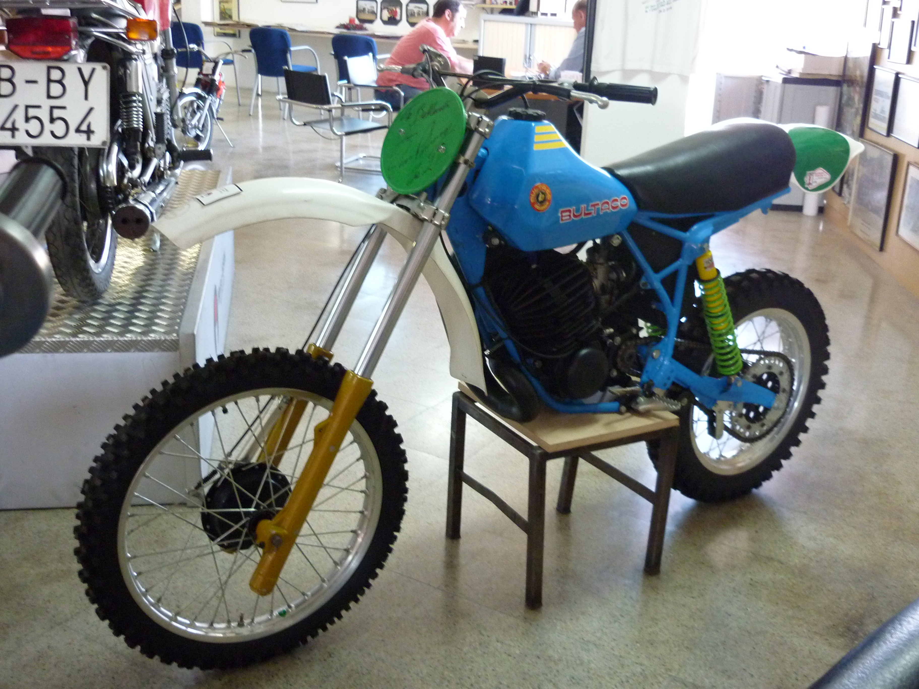 Bultaco Pursang MK15 250cc prototype (1980), did not sell because the company went into bankruptcy.Isern Motorcycle Museum, Mollet del Vallès (Catalonia).